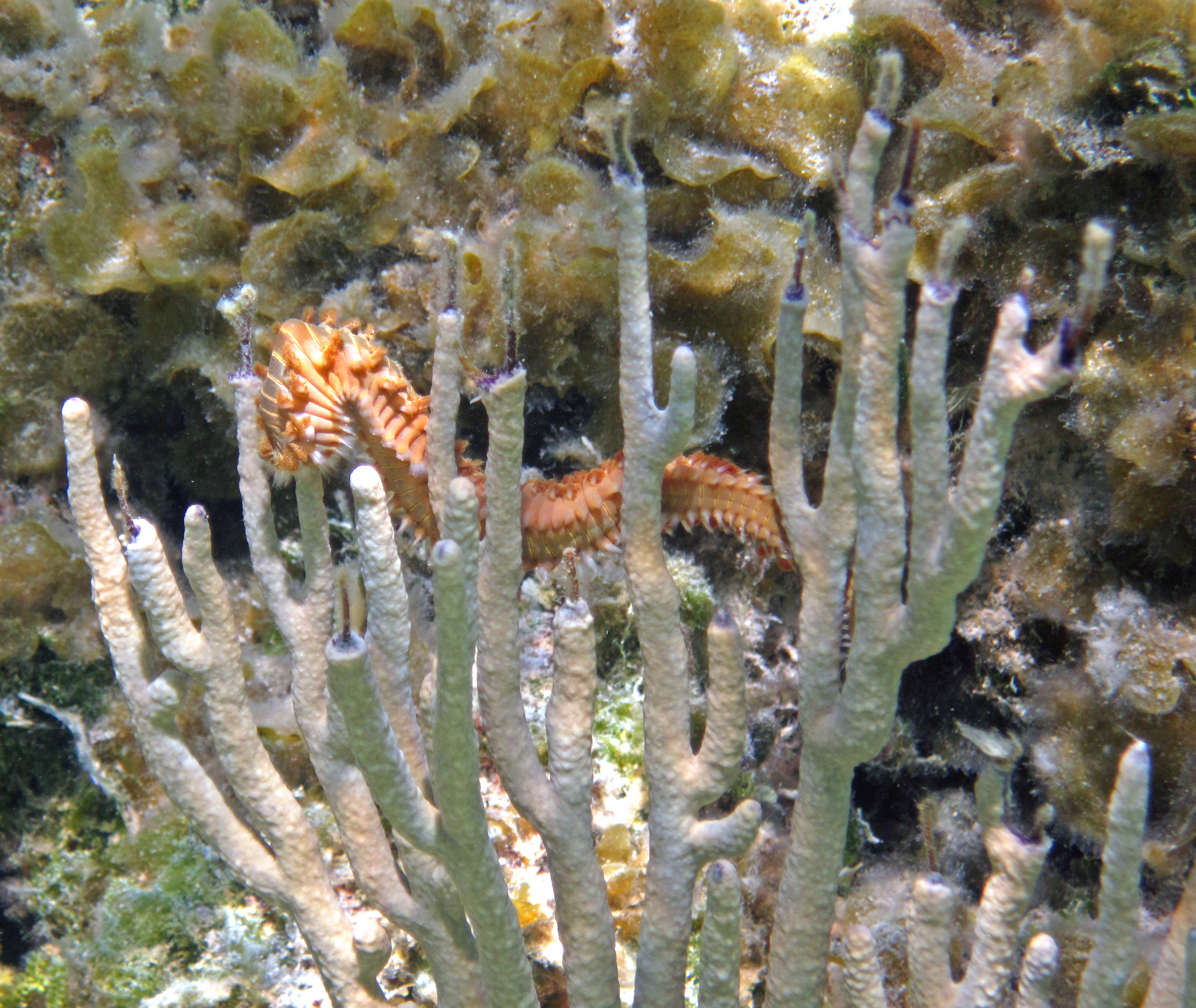 Hermodice carunculata (Pallas, 1766) - bearded fireworm at a patch reef. Fireworms have tufts of spines/bristles along the lateral margins of the body. Puncture by these spines of results in painful wounds. This species varies in color from greenish brown to brown to whitish to orangish to reddish. The fireworm shown above is feeding on the tips of an octocoral - note that many of the tips of this octocoral are damaged. Classification: Animalia, Annelida, Polychaeta, Errantia, Amphinomidae Locality: patch reef just west of Cut Cay, eastern Graham's Harbour, northern San Salvador Island, eastern Bahamas